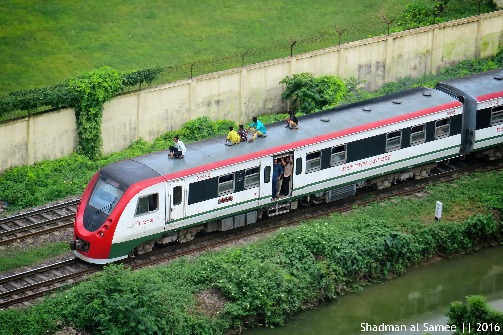 Staff-road rail crossing 2016.